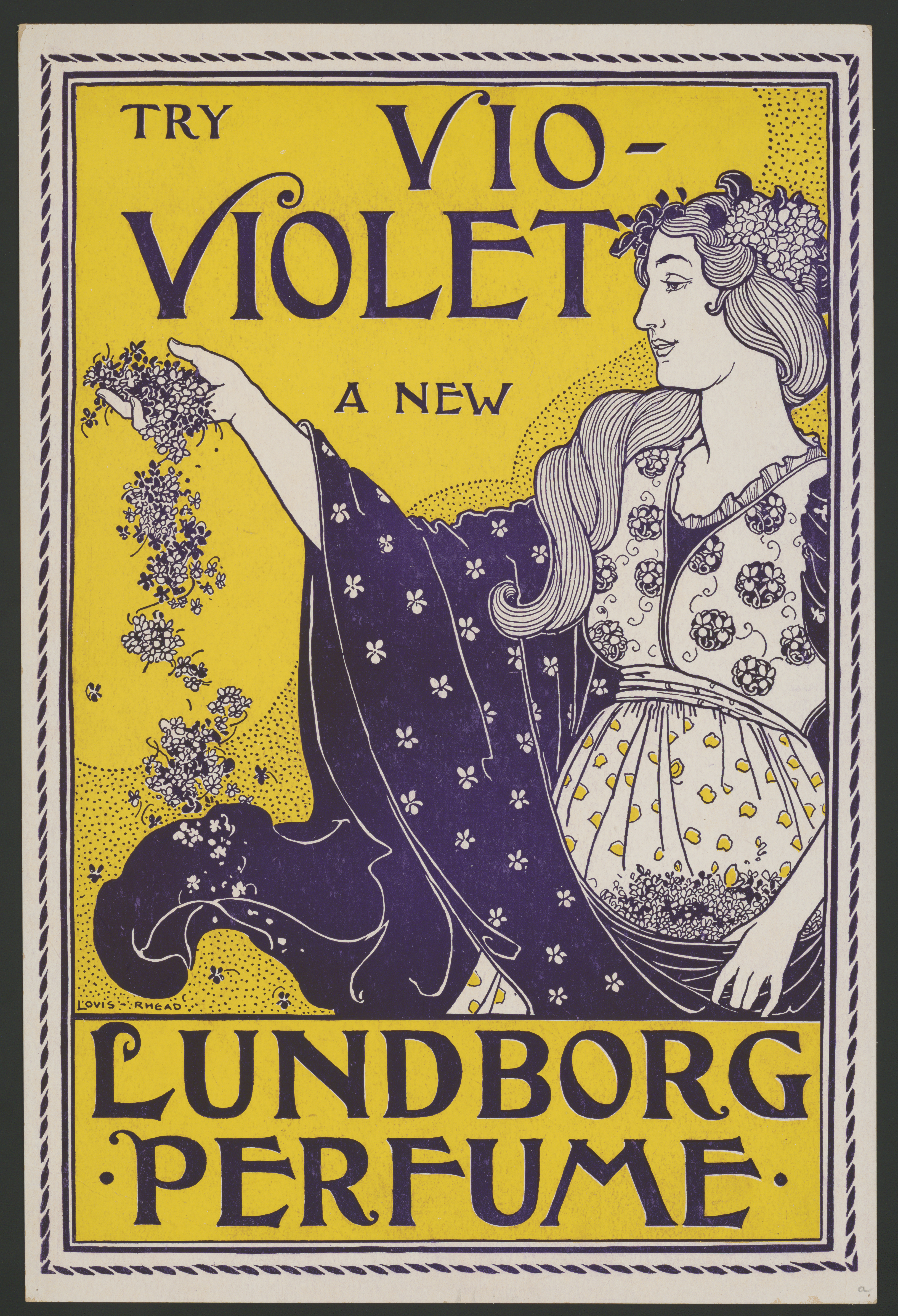 Try vio-violet a new Lundborg perfume A woman holds flowers.